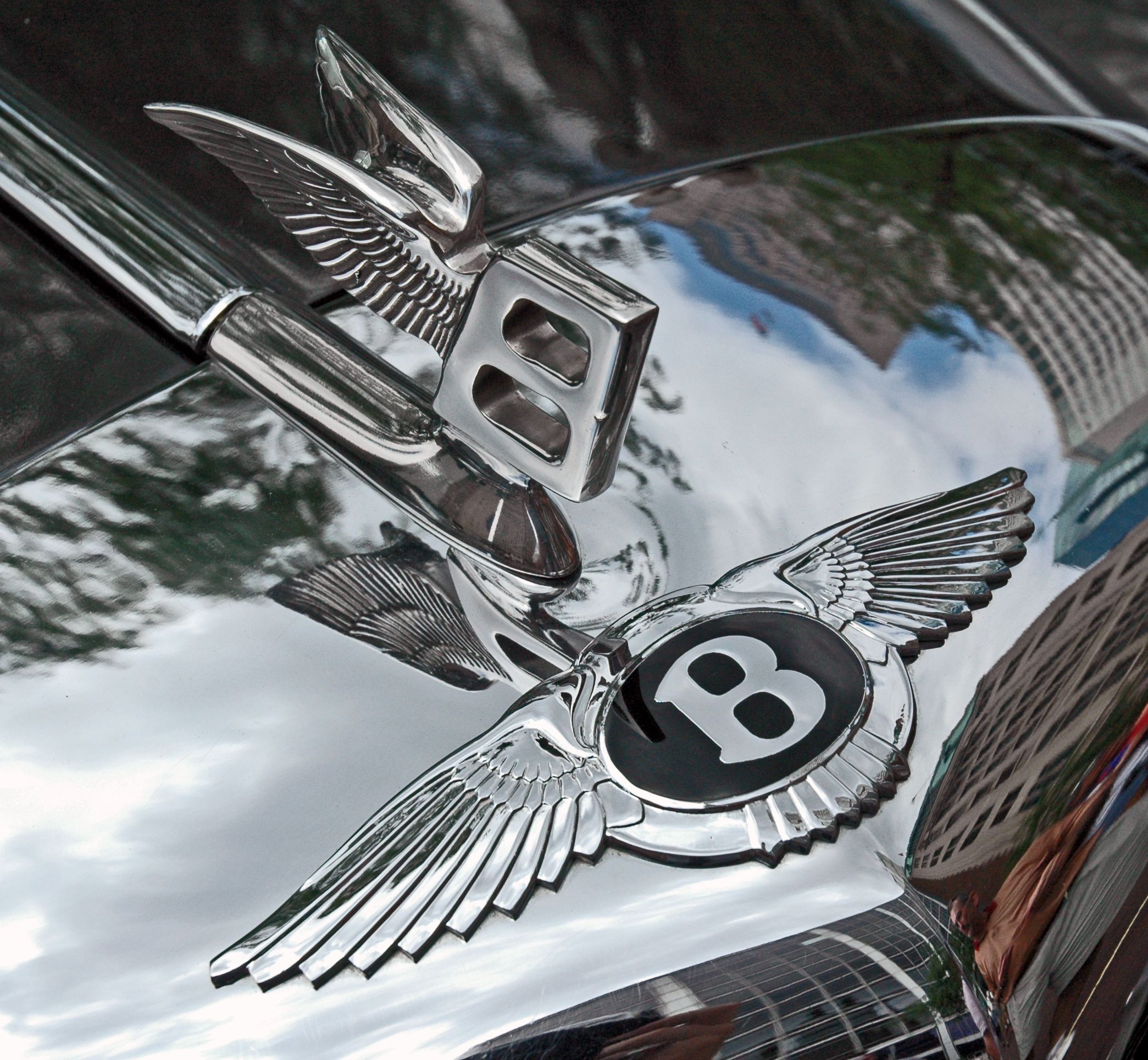 A Bentley badge and hood ornament atop a 1960 S-2 4-Door Saloon. See also a black-and-white version.